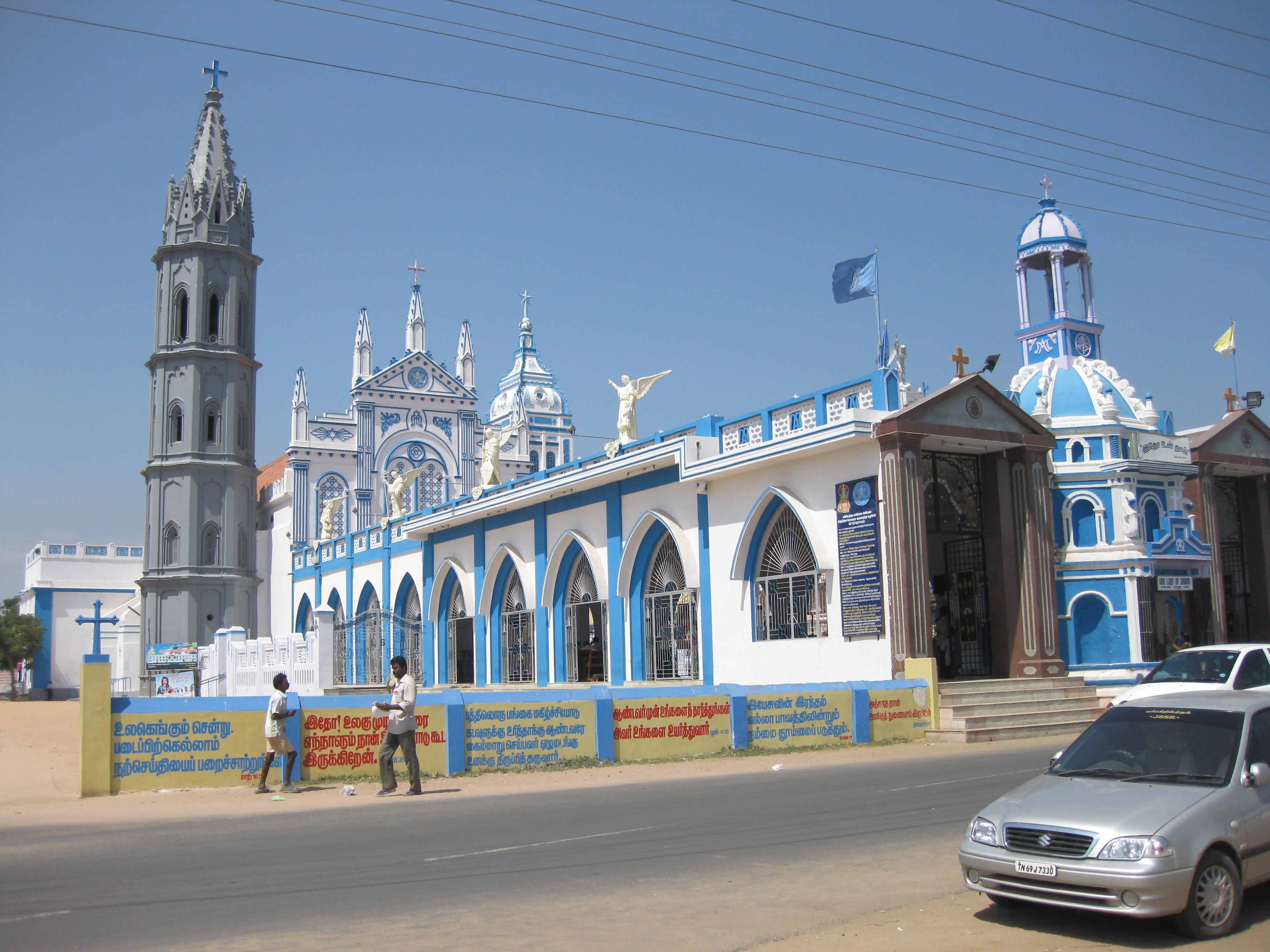 'Our lady of snows basilica" in Tuticorin district-Tamilnadu